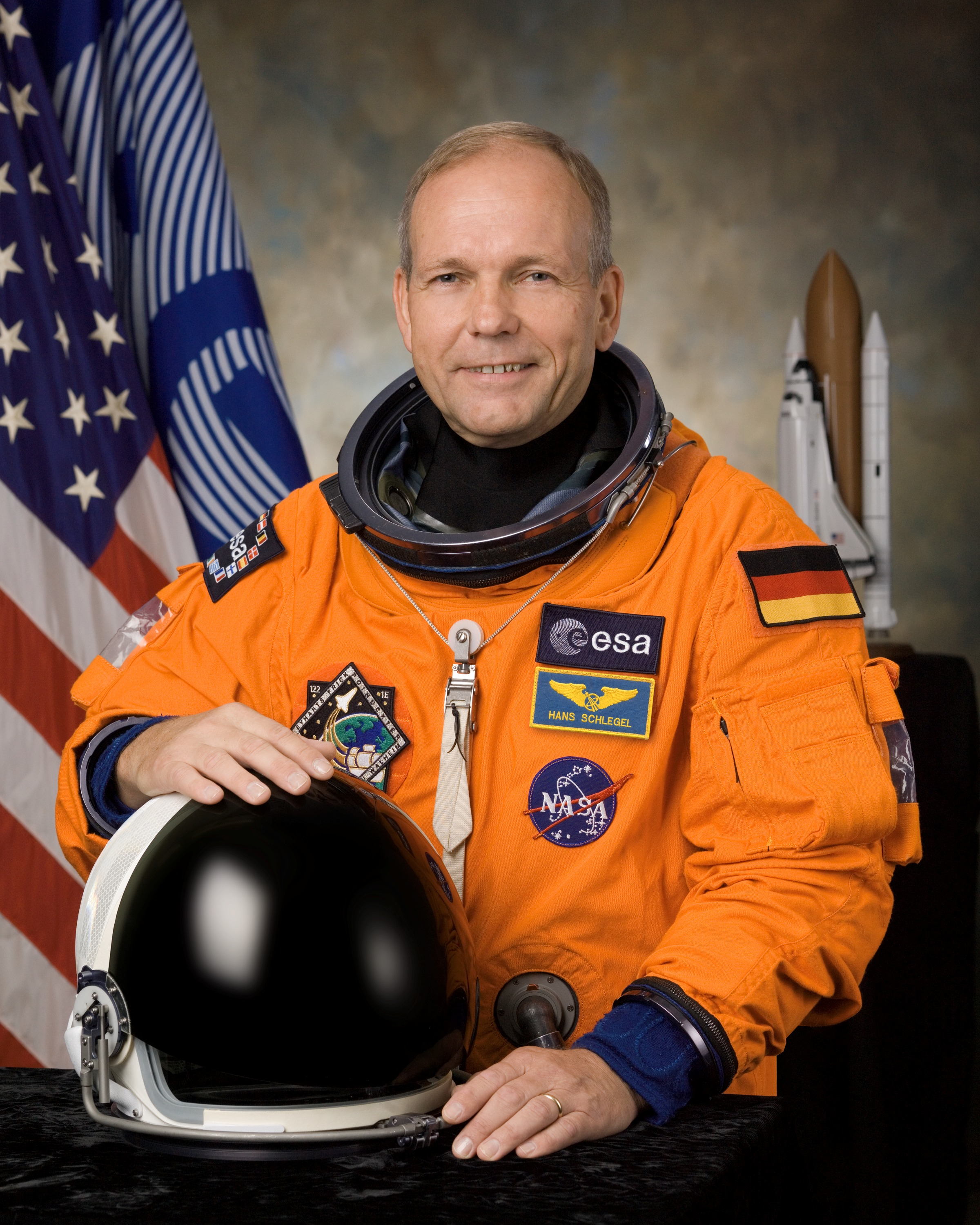 Official portrait image of ESA astronaut Hans Schlegel, a mission specialist of STS-122.